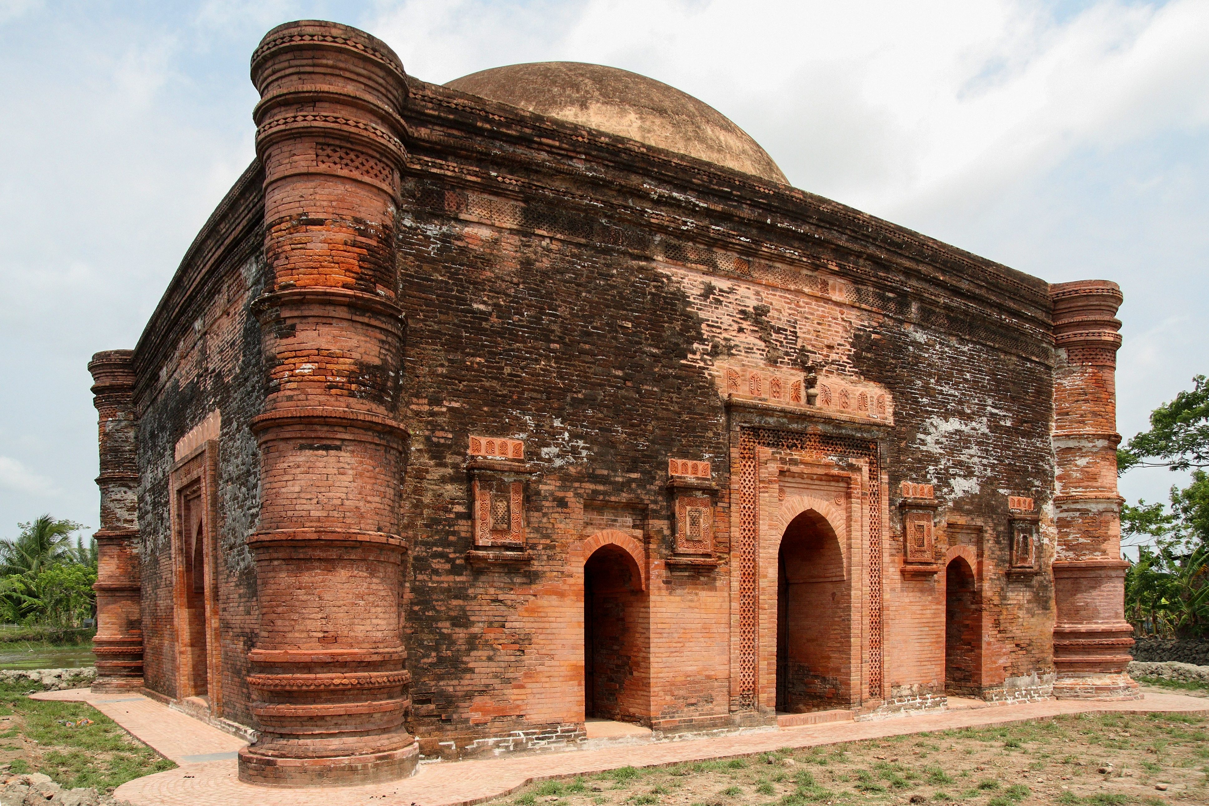 Chuna Khola Mosque, (north exposure) Bagerhat, Bangladesh.